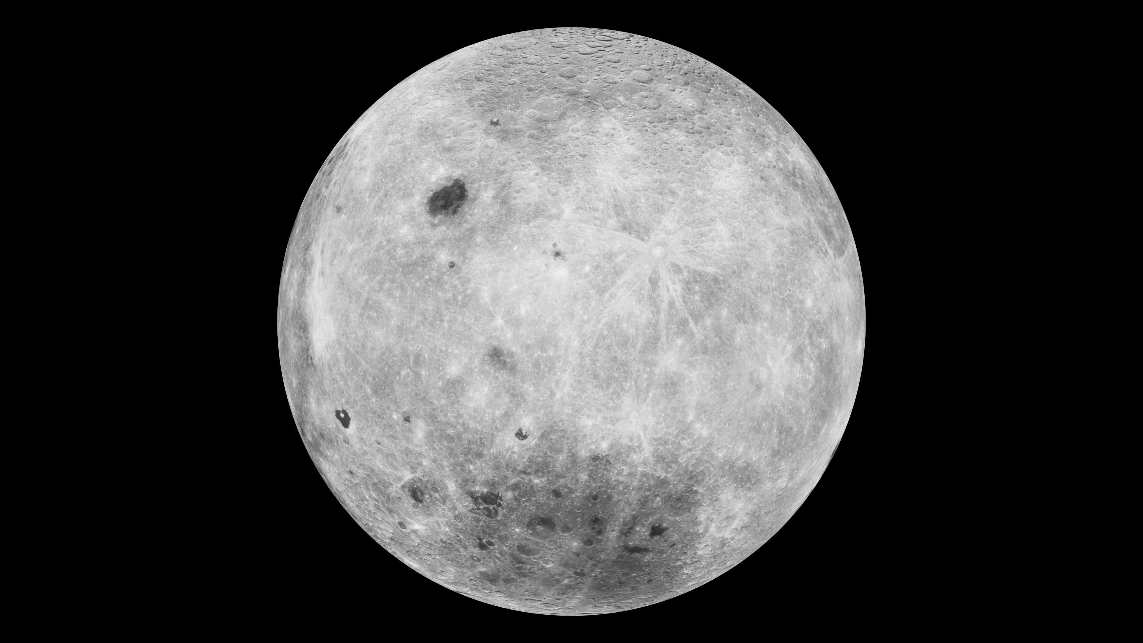 A virtual view of the Moon showing Clementine data. This image shows the far side of the Moon.